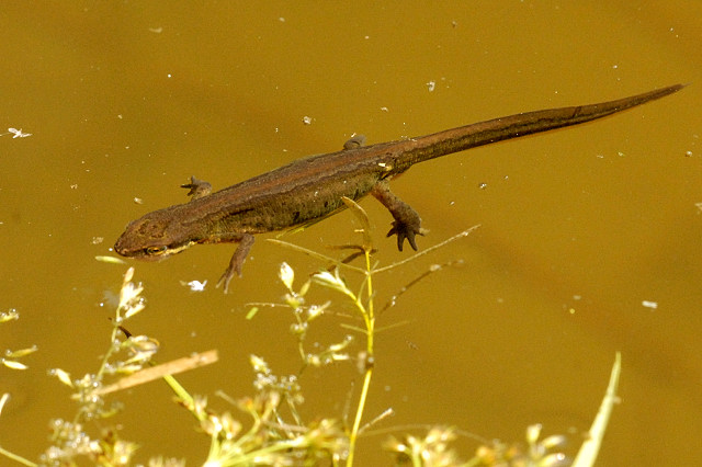 Triturus helveticus from Commanster, Belgian High Ardennes .